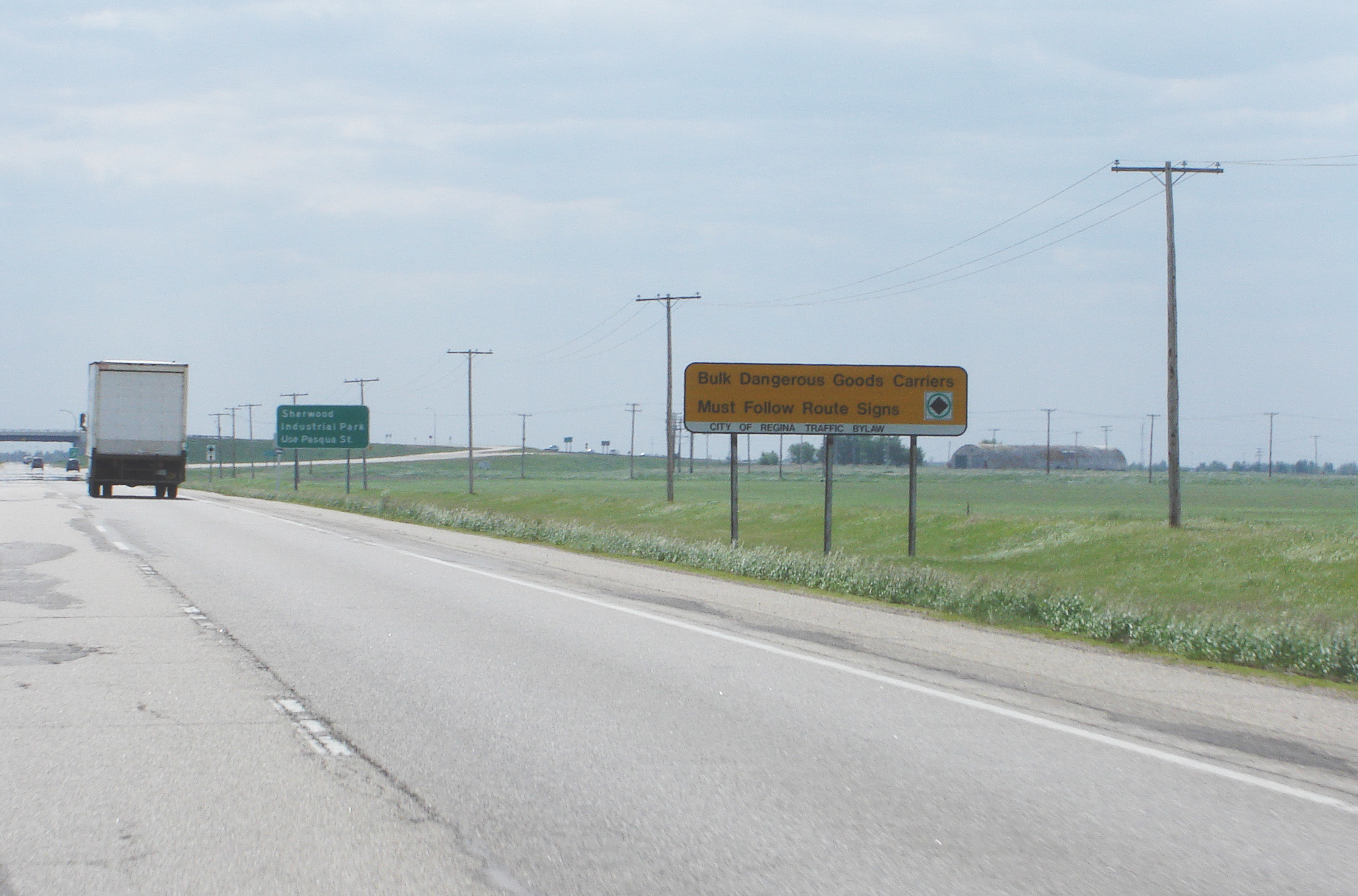 Bulk Dangerous Goods Route Must Follow Route Signs City of Regina Traffic Bylaw and Sherwood Industrial Park, Use Pasqua St., Road Signage at Regina Photo taken from Saskatchewan Highway 11, Louis Riel Trail travelling south from Saskatoon to Regina